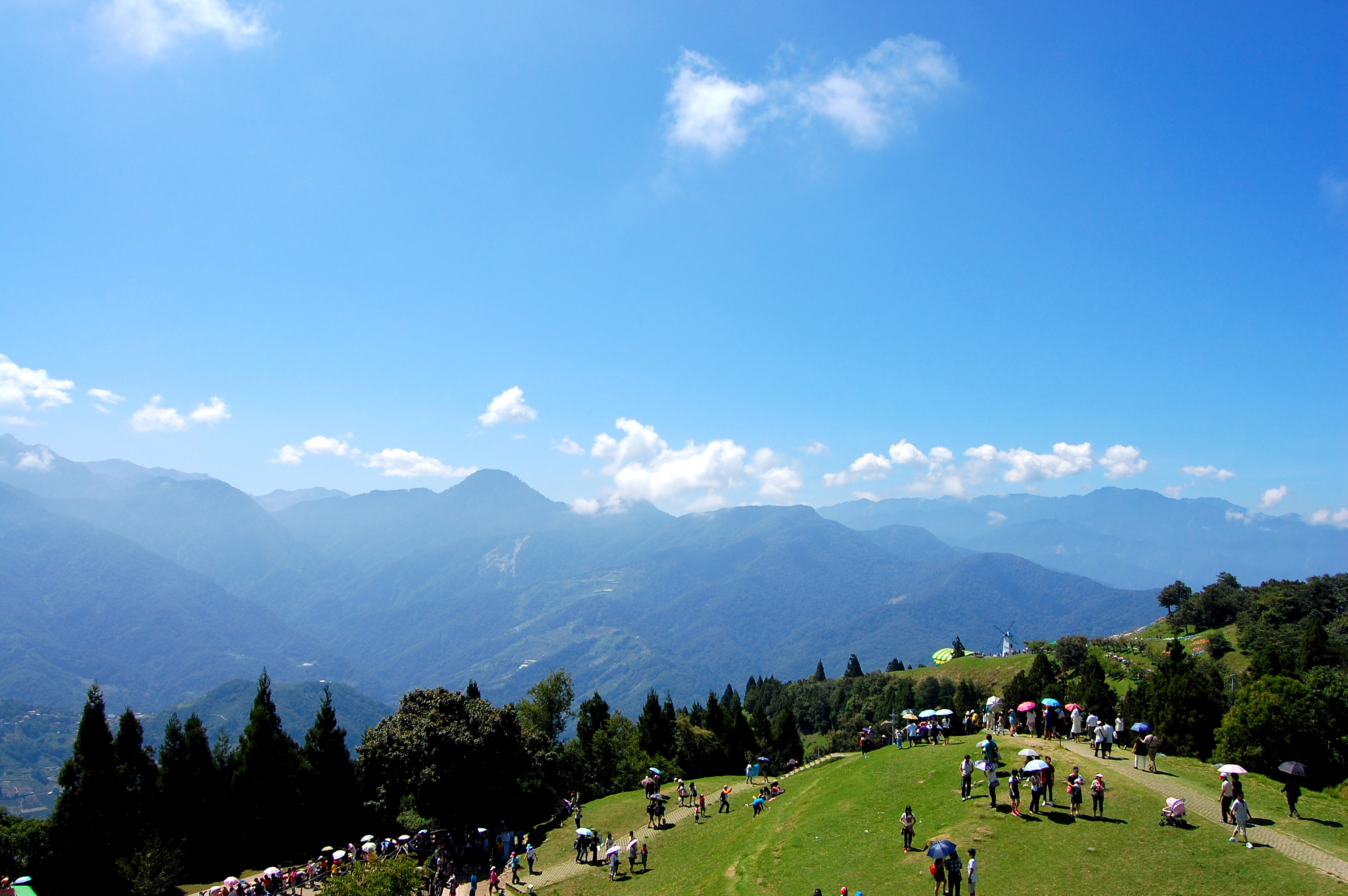 Evergreen Grassland